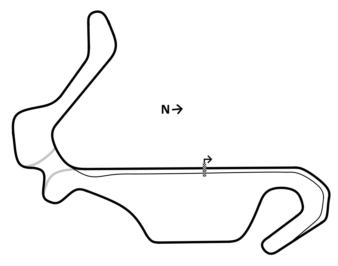 The track layout of Inje Speedium, Gangwon-do, Republic of Korea.